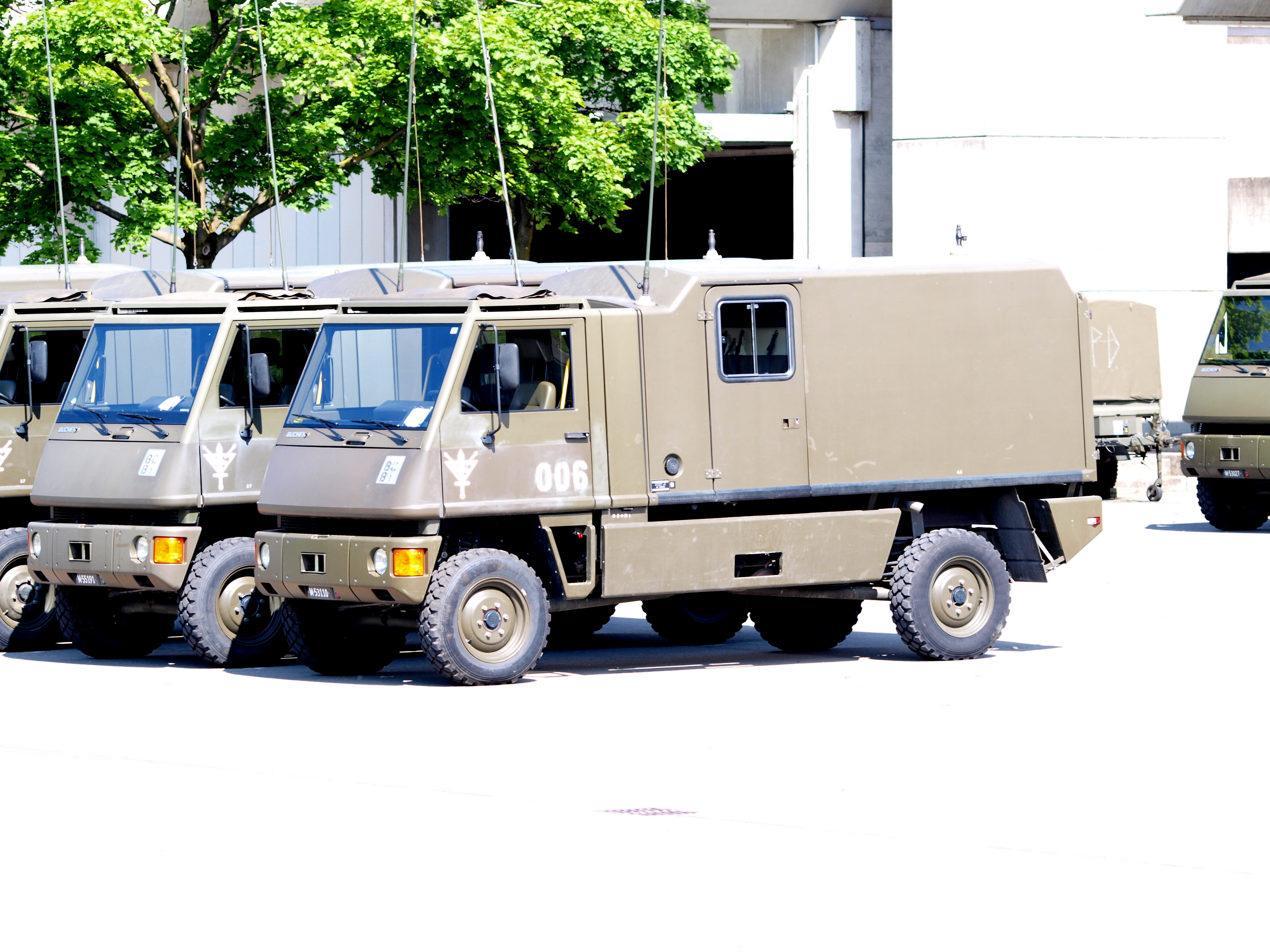 Photographed at the army base Thun, Switserland.